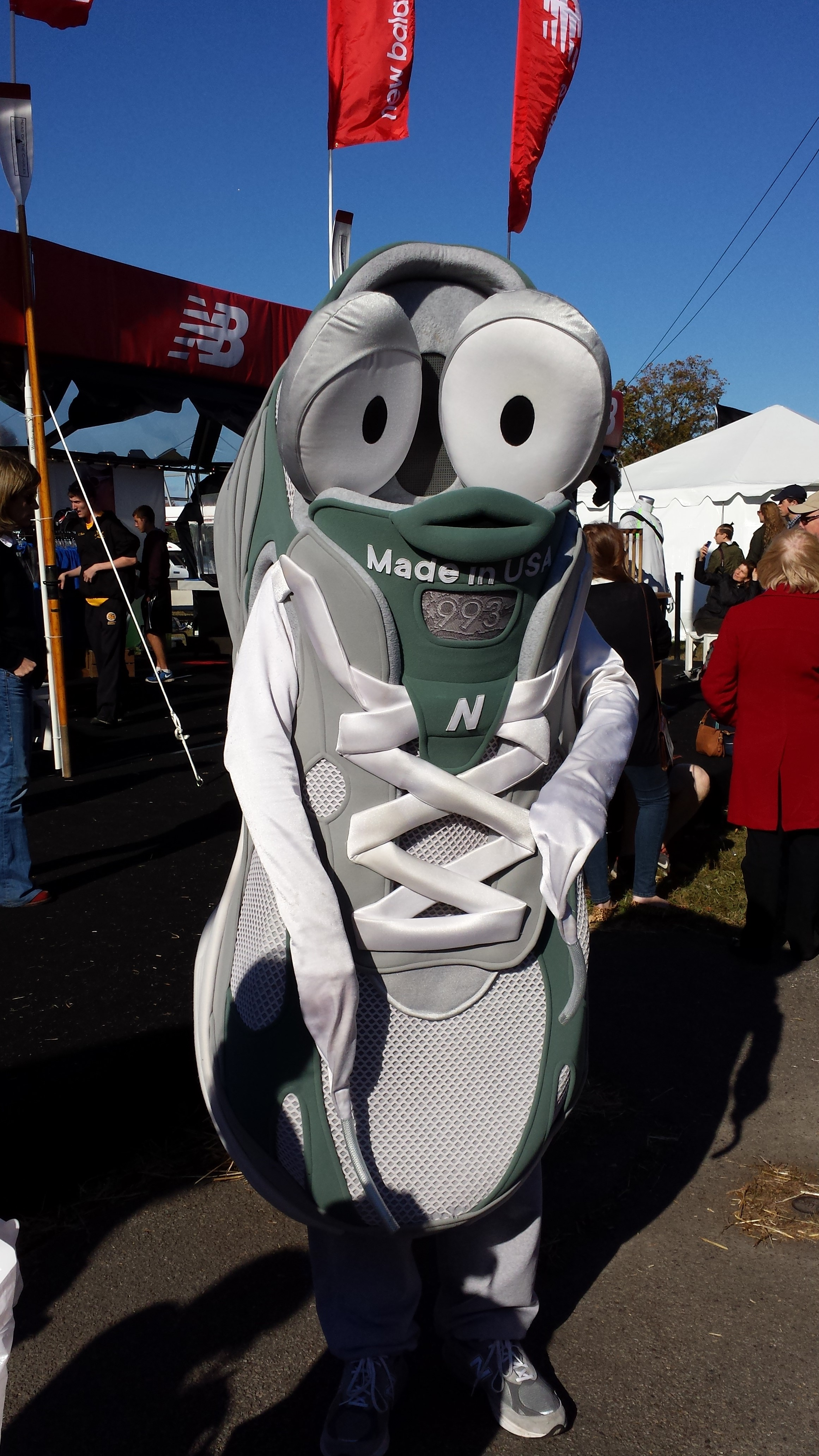 The New Balance mascot, Newbie, at the Head of the Charles Regatta in October of 2013.